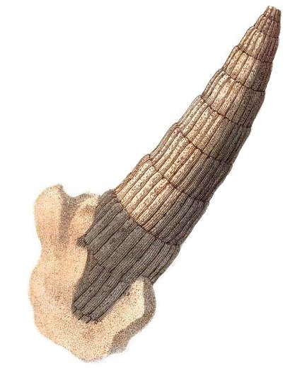 Illustration of a Calamites species fossil from the "Petrificata derbiensia: or, Figures and descriptions of petrifactions ... By William Martin - Fossil - PHYTOLITHUS sulcatus Graminis trunci cylindrici simplicis articulis longitudinaliter sulcatis S t.